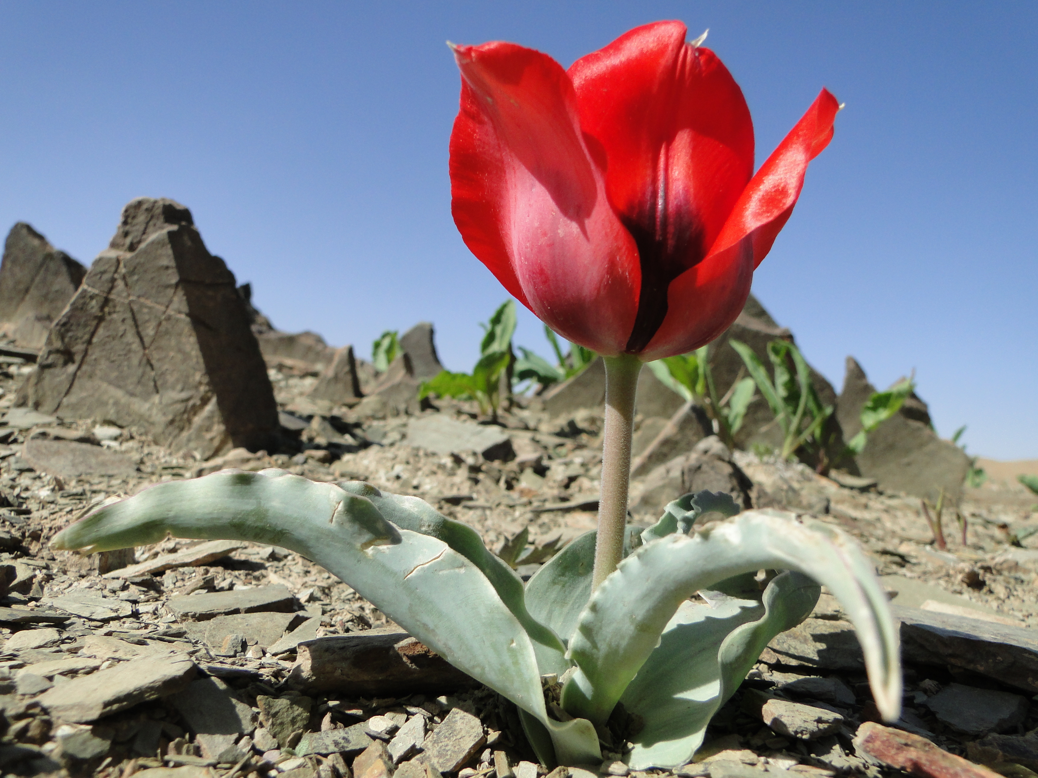 Gole-Laleh-Roostaye-Sayyedan